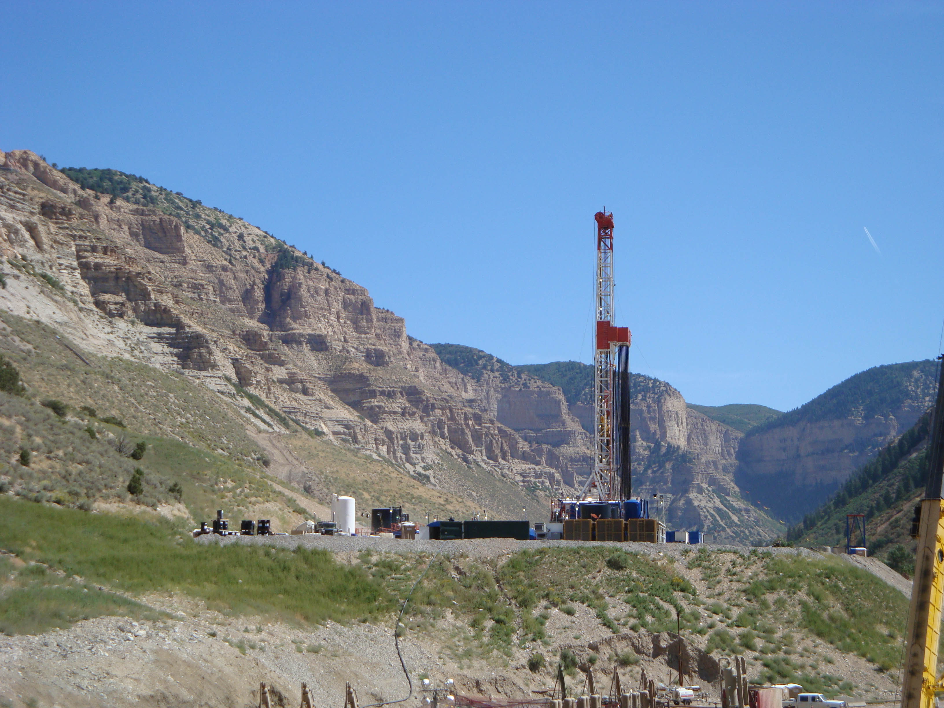 A remote natural gas well near Parachute, CO.